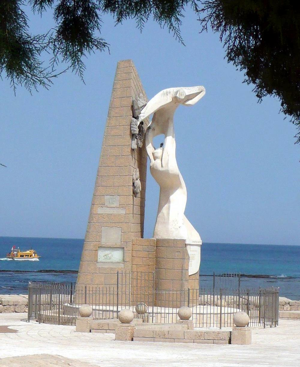 Monument Underground Prisoners